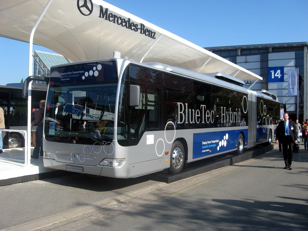 Mercedes-Benz Citaro G BlueTec Hybrid bus in Hanover, Germany. Built 2008. IAA 2008.